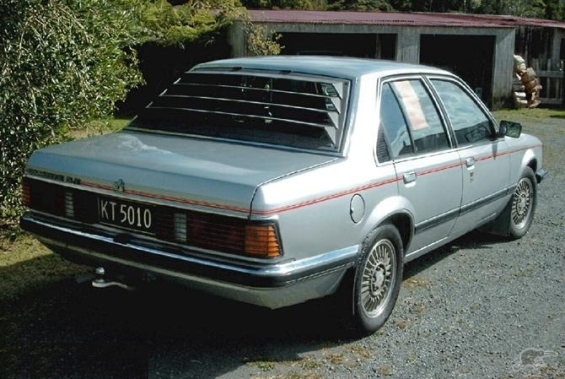 1981–1984 Holden VH Commodore SL/E sedan (with 1978–1980 Holden VB Commodore SL/E / 1980–1981 Holden VC Commodore SL/E alloy wheels).